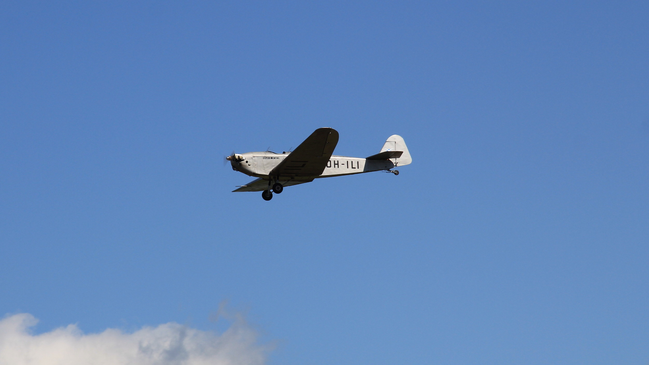 Klemm Kl 25 D VII R Adolf Aarno flying in Turku Airshow 2019, Turku, Finland. - Pilot Tuomo Hyyrönmäki.